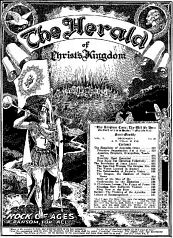 Herald of Christs Kingdom no.1 (December 1918)